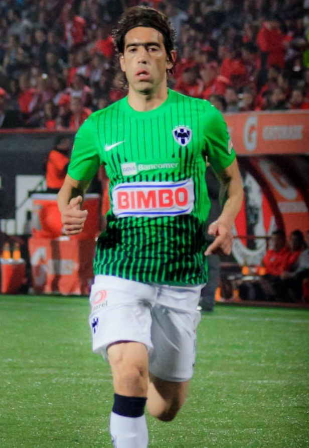 Monterrey player Cesar Delgado